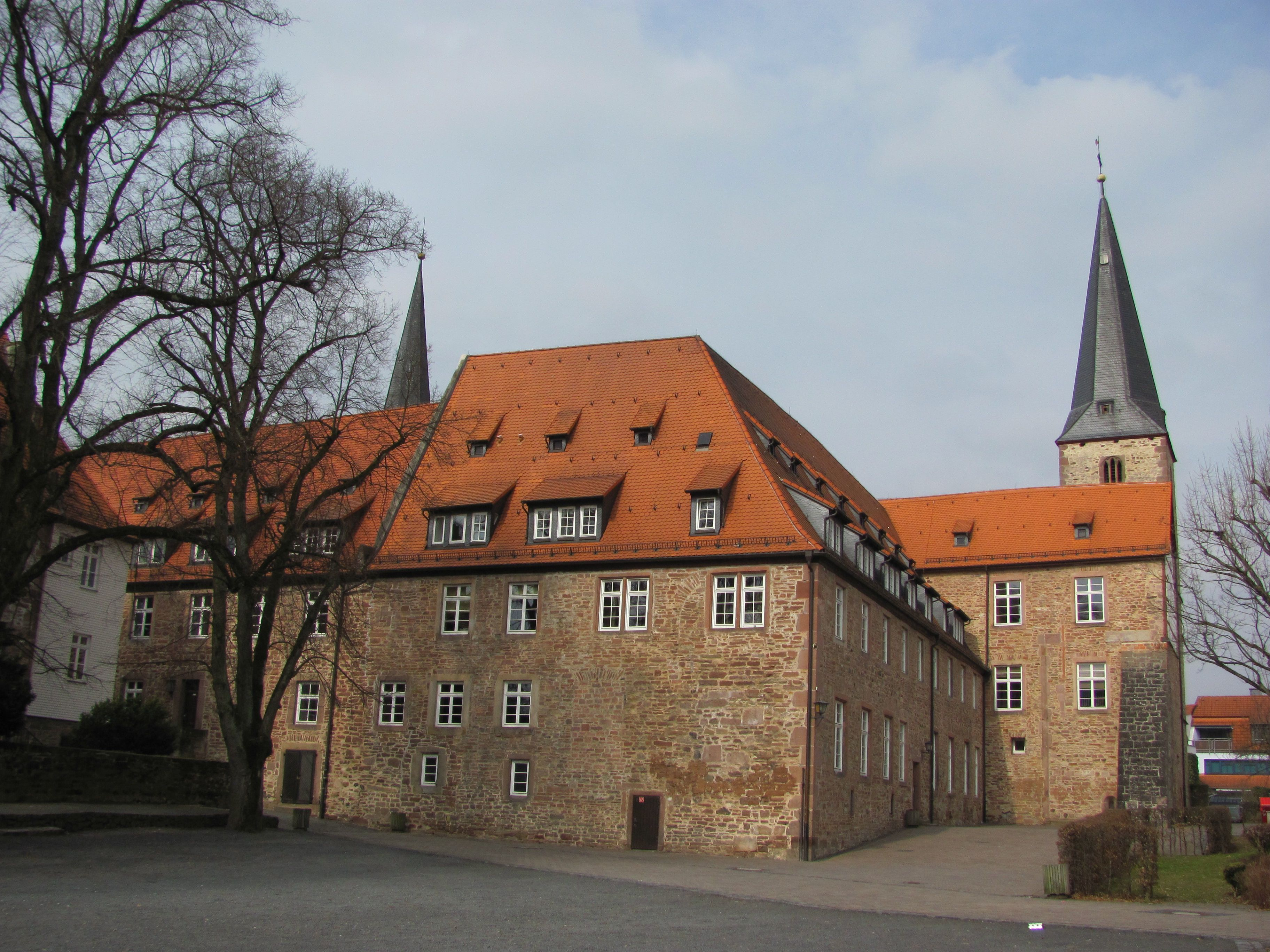 Schlüchtern Monastery